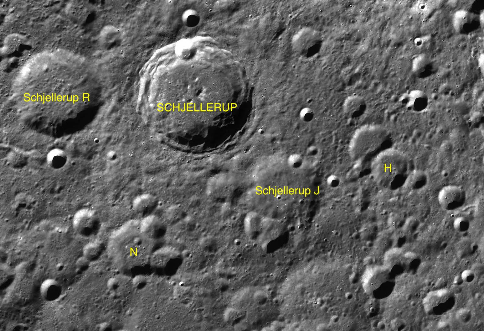 Part of the chart LAC-7 used for the presentation